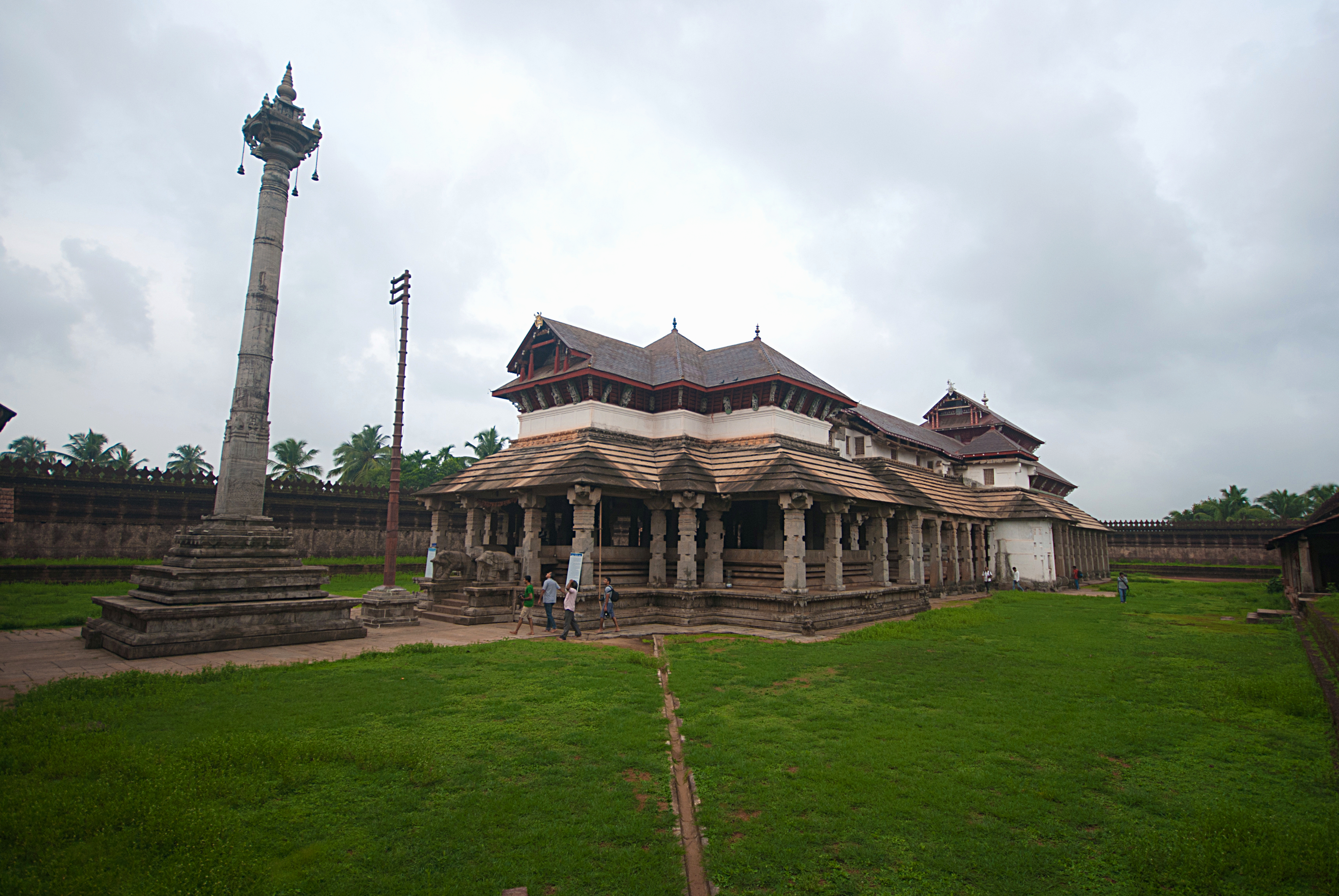 Tribhuvan tilak chudamani also known as saavira kambada basadi, the thousand pillar jain temple from Moodabidri, Karnataka